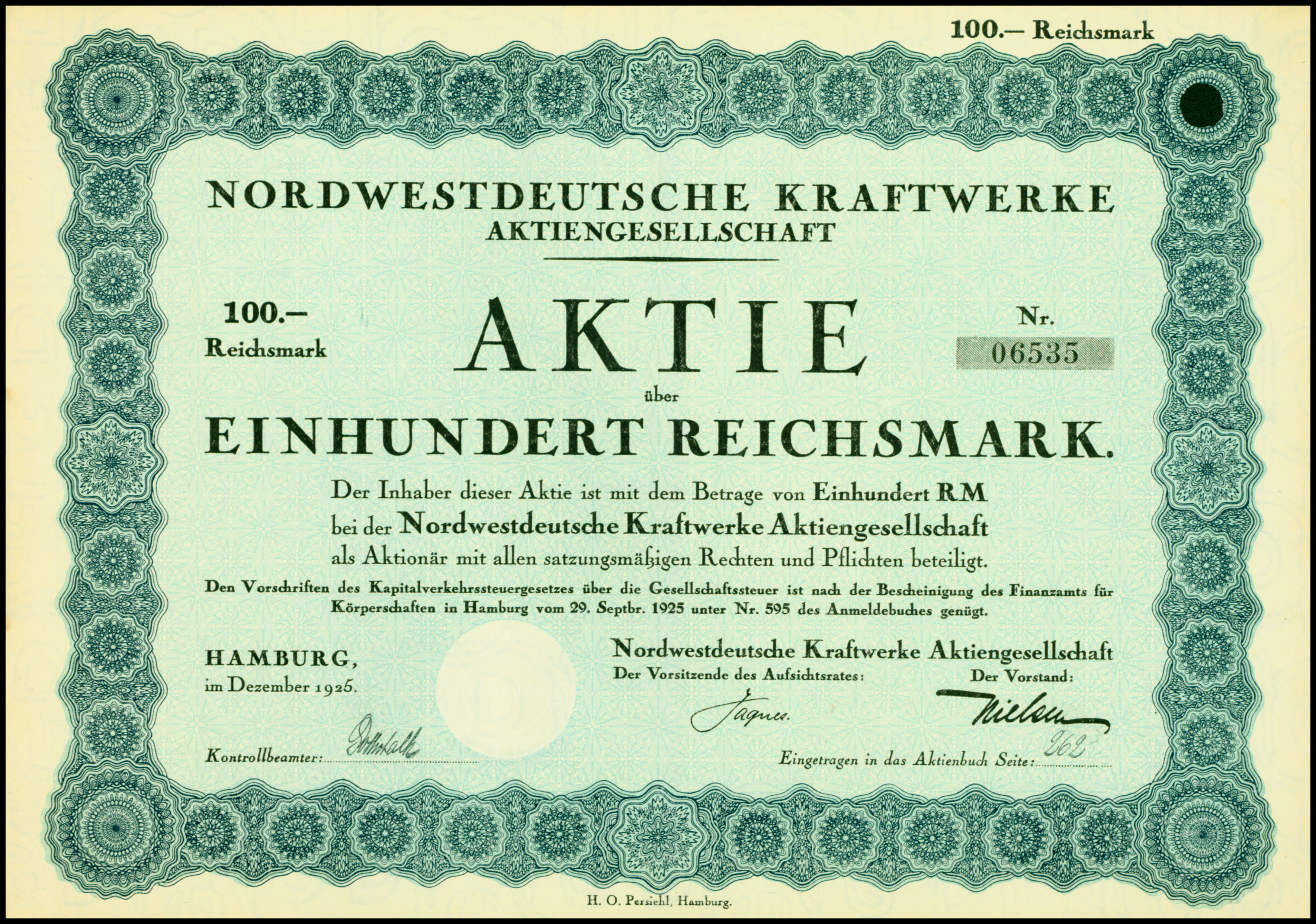 Share of the Nordwestdeutsche Kraftwerke AG, issued December 1925